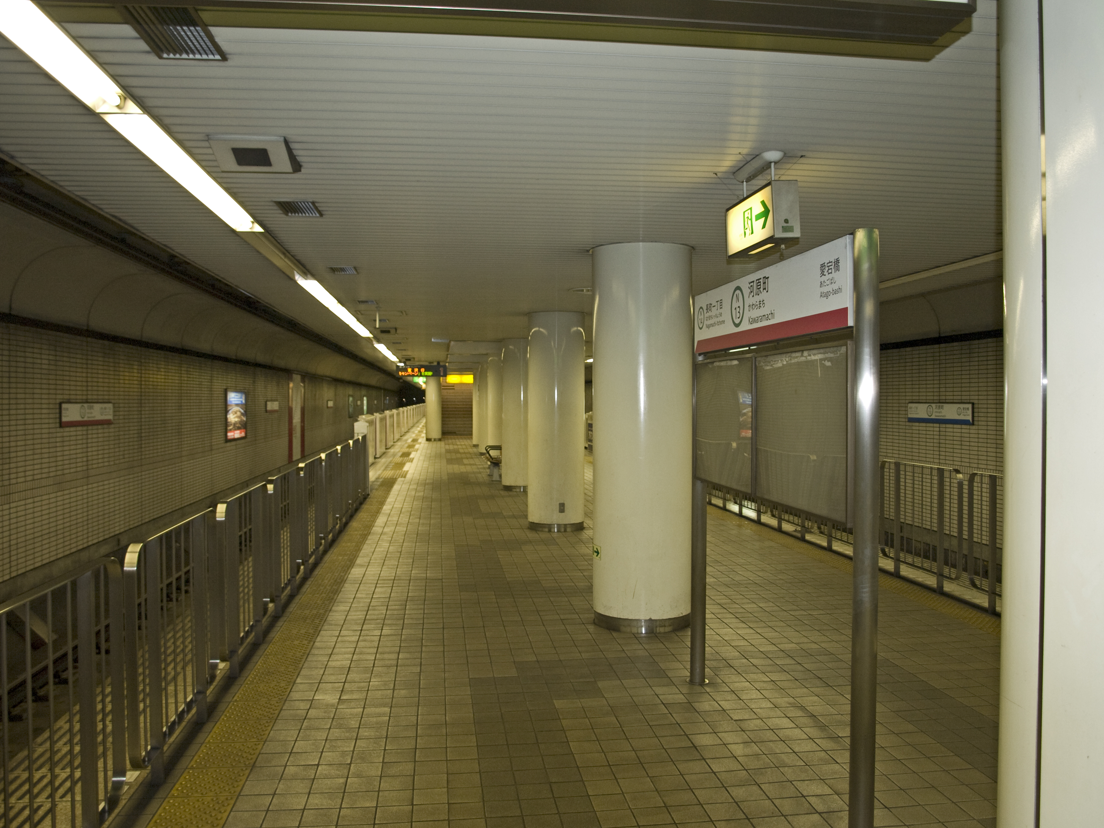 Kawaramachi Station platforms, Sendai Metro